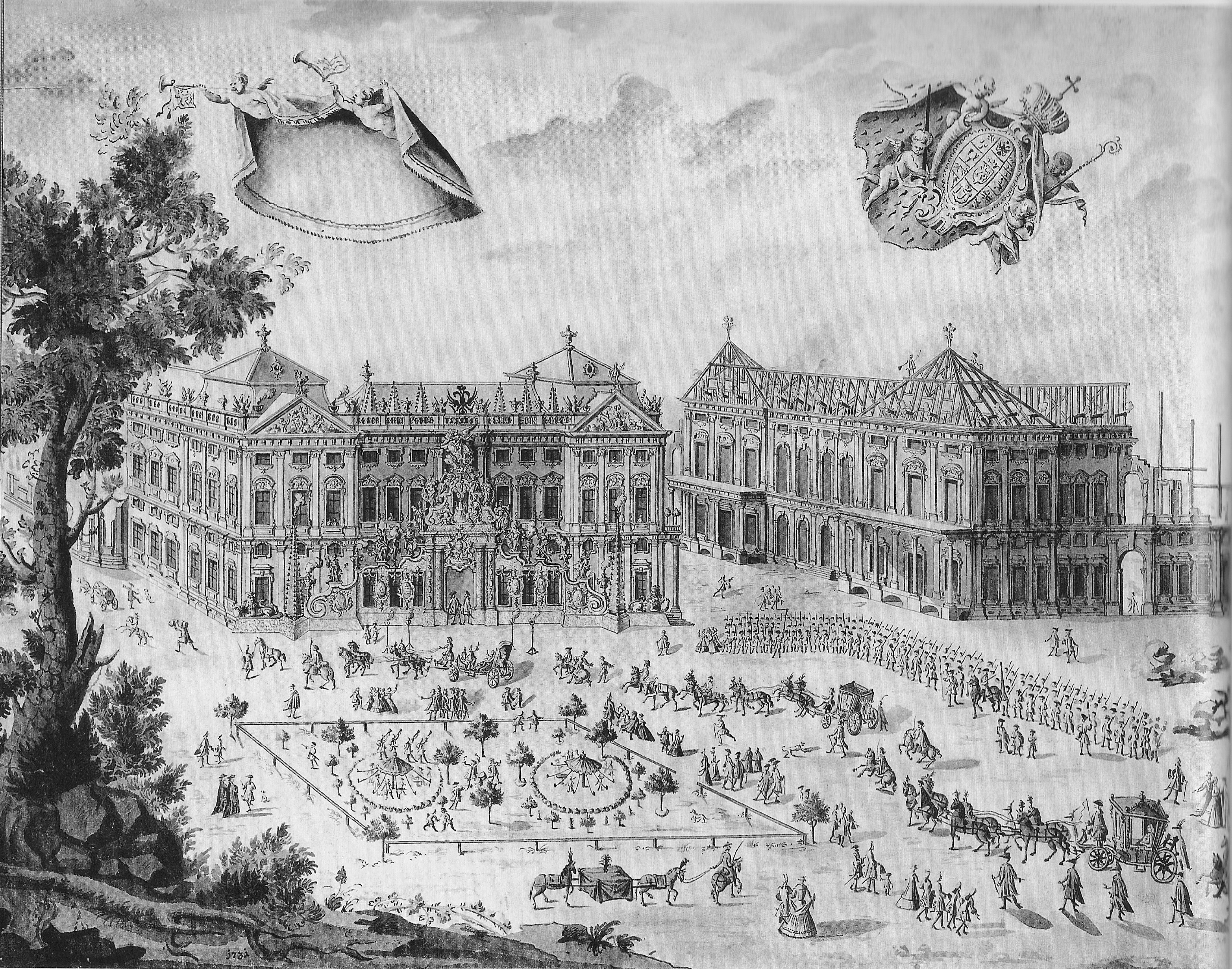 The new Würzburg residenz of Prince-Bishop Friedrich Carl von Schönborn under construction, c. 1730. On this contemporary engraving, the Prince-Bishop is visiting the site.